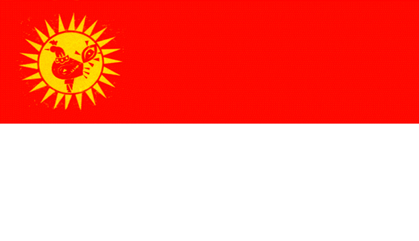 Yezidi Nationa Union, Yezidis are nation, their religion is Sharfadin, language is Yezidish